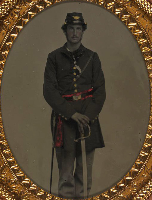 Title: First Lieutenant Jacob A. Field of Company K, 12th Maine Infantry Regiment in uniform and red officer's sash with sword Abstract/medium: 1 photograph : ninth-plate tintype, hand-colored ; 7.6 x 6.5 cm (case)